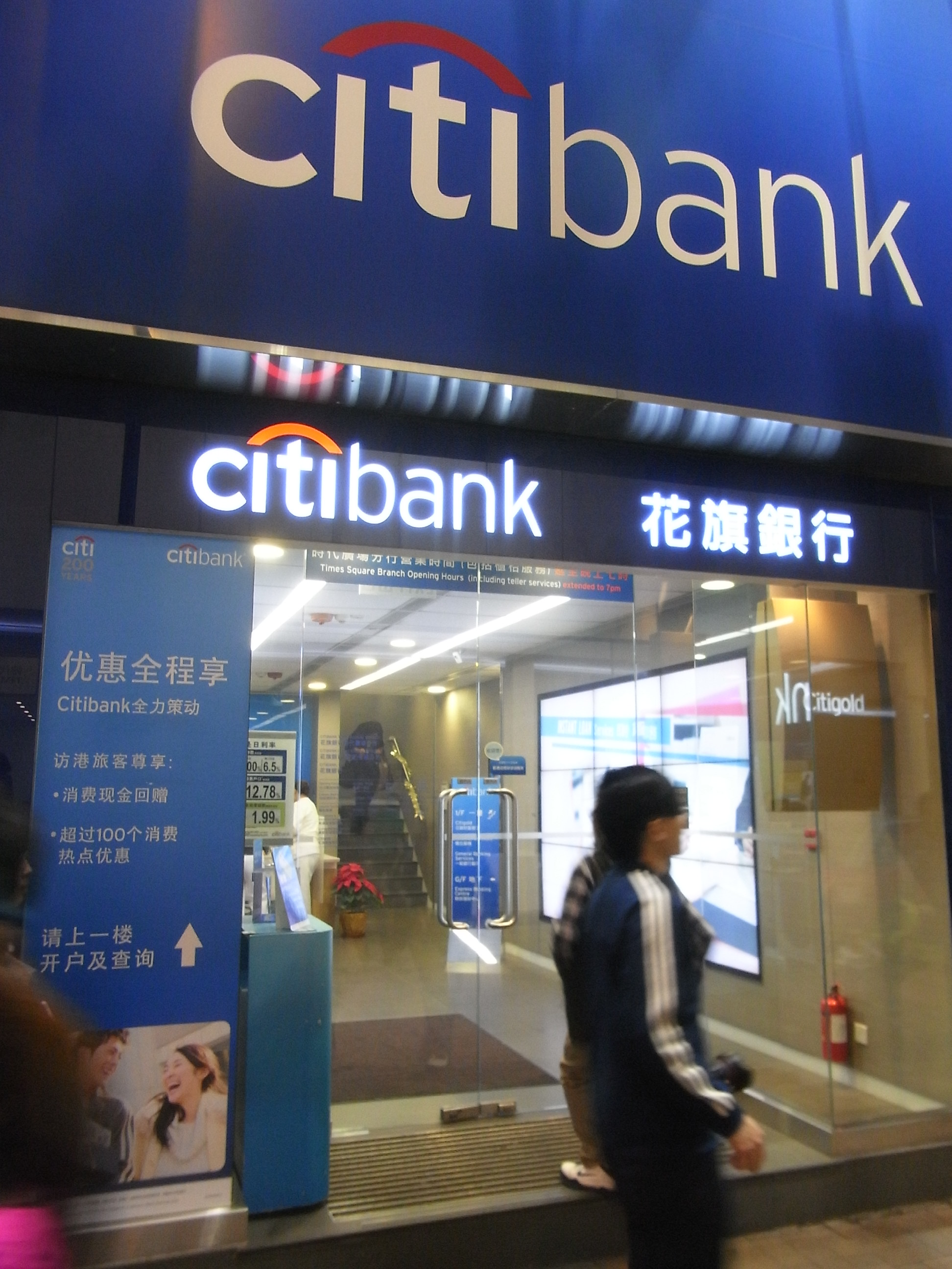 Plaza 2000, Causeway Bay, Hong Kong